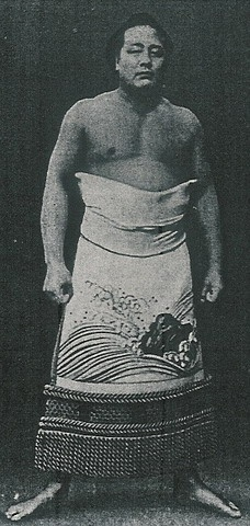 Picture of 2 time makuuchi champion, he died in 1942, before 1946, so it is without question public domain.